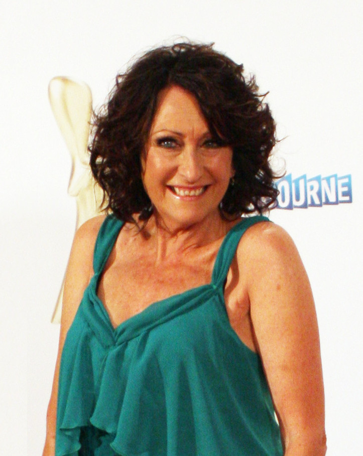 Lynne McGranger at the 2011 Logie Awards.